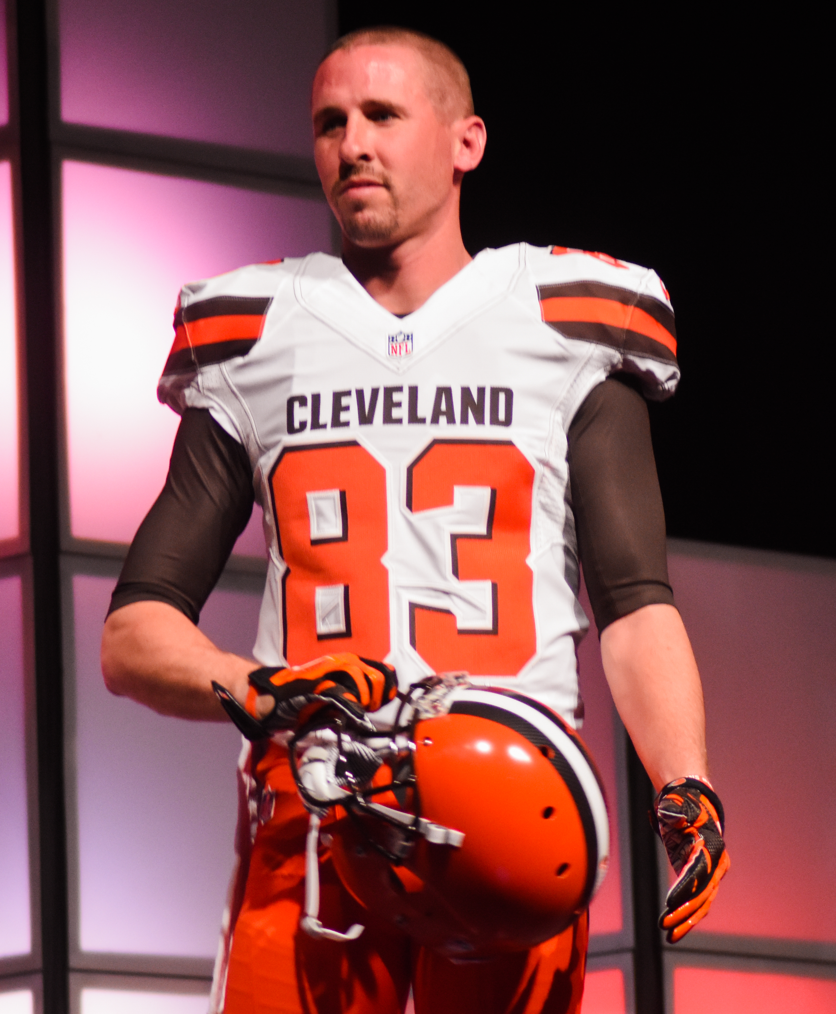 Cleveland Browns New Uniform Unveiling